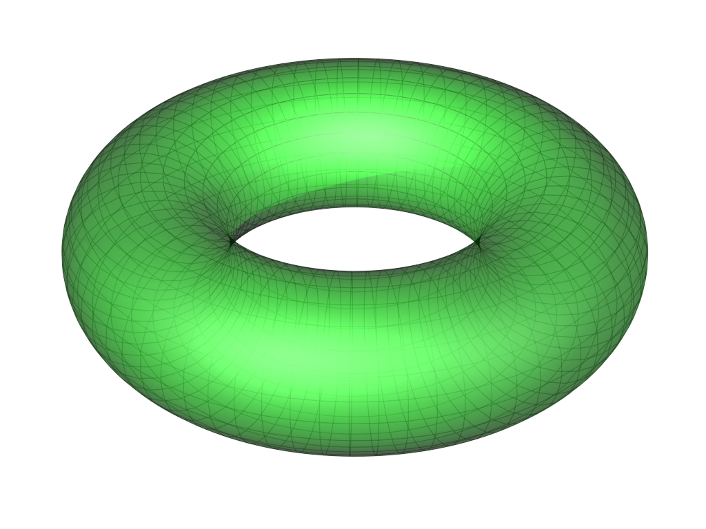 Illustration of the geometrical torus (full body)